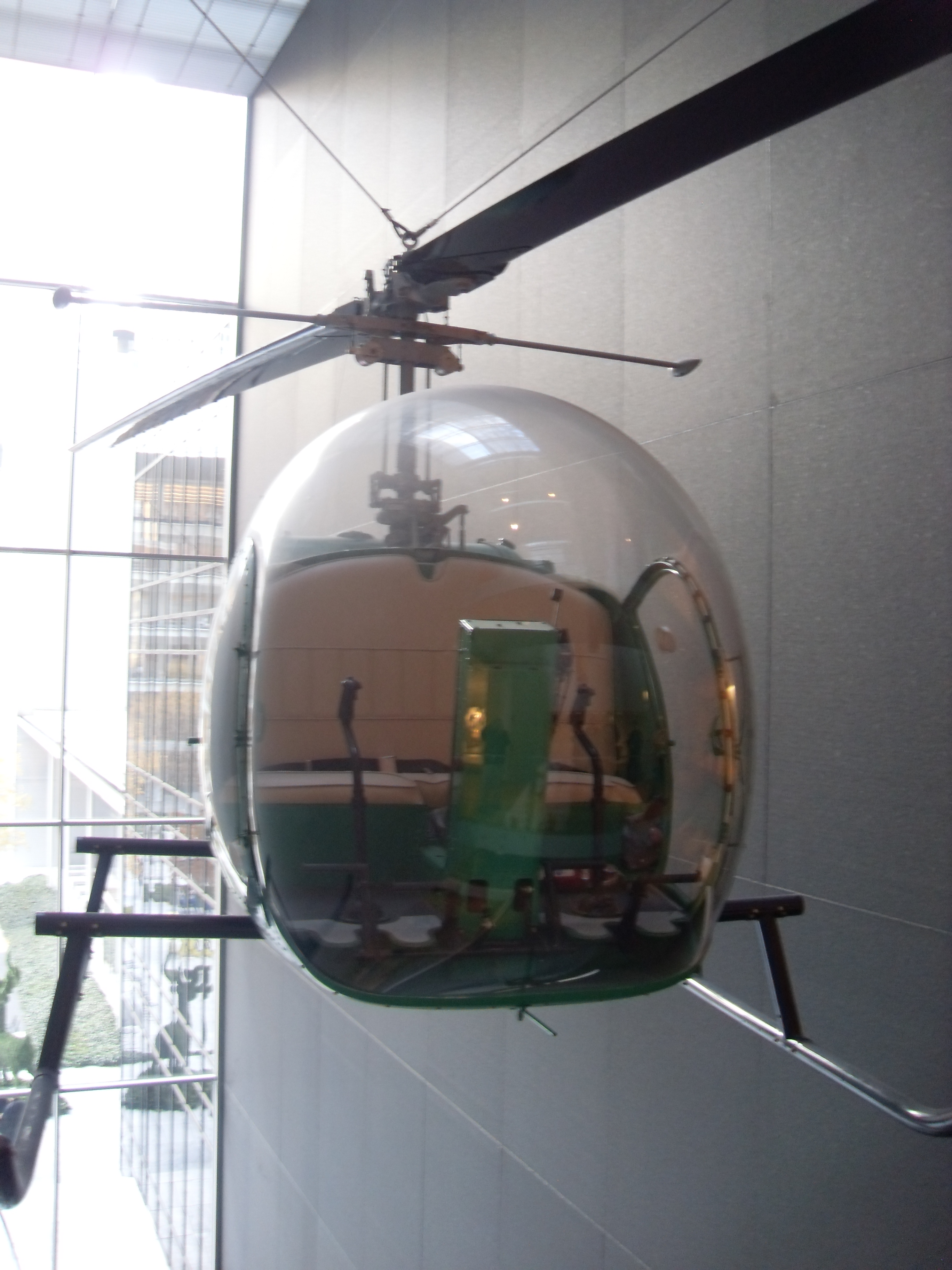 Bell helicopter 47, displayed at the Museum for Modern Art (MOMA), New York City, 2009